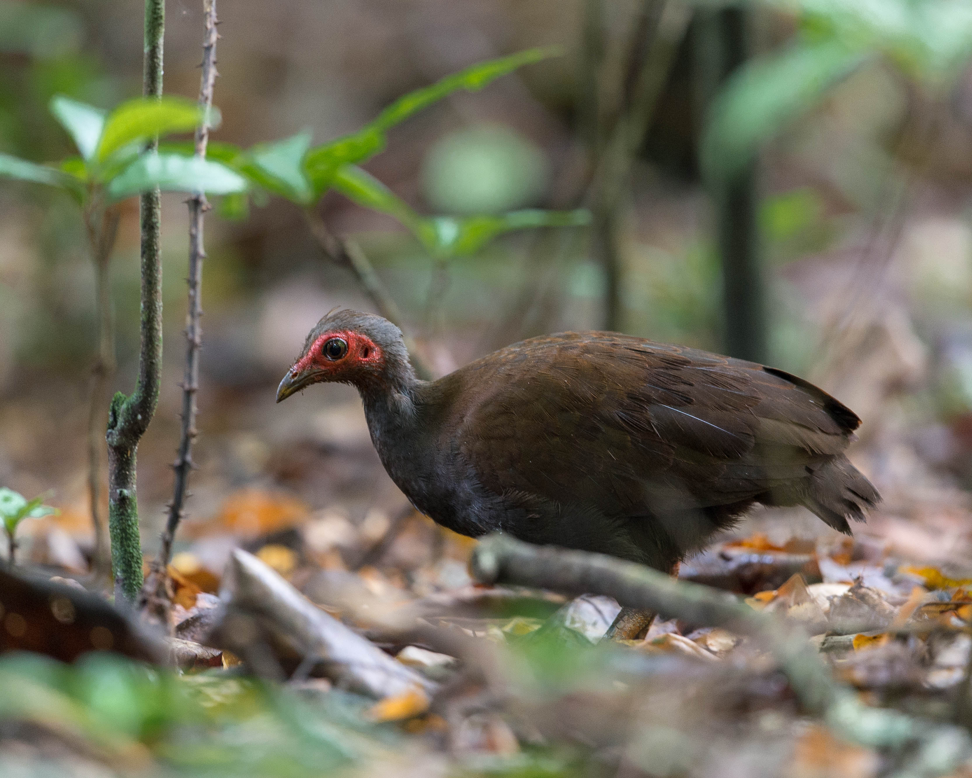 A Philippine Megapode in North Sulawesi, Indonesia.